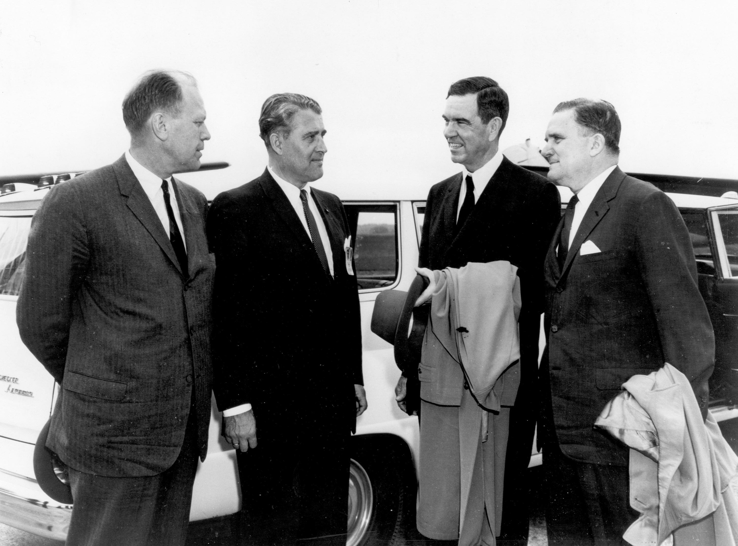 Two US Congressmen, accompanied by NASA Administrator James E. Webb, visited the Marshall Space Flight Center (MSFC) April 28, 1964, for a briefing on the Saturn program and a tour of the facilities. They are (left to right) Congressman Gerald Ford Jr., Republican representative of Michigan; Dr. Wernher von Braun, MSFC director; Congressman George H. Mahon, Democratic representative of Texas; and Mr. Webb.